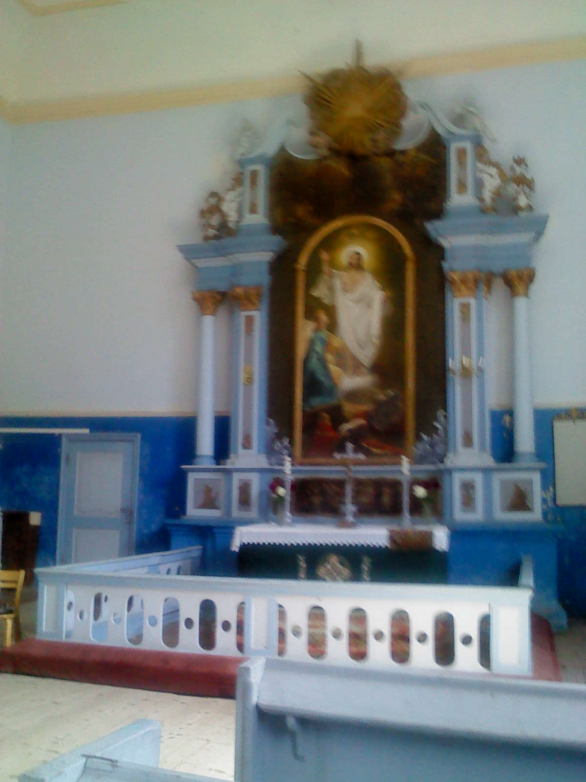 Altar of St. Peter Church in Karksi, Estonia